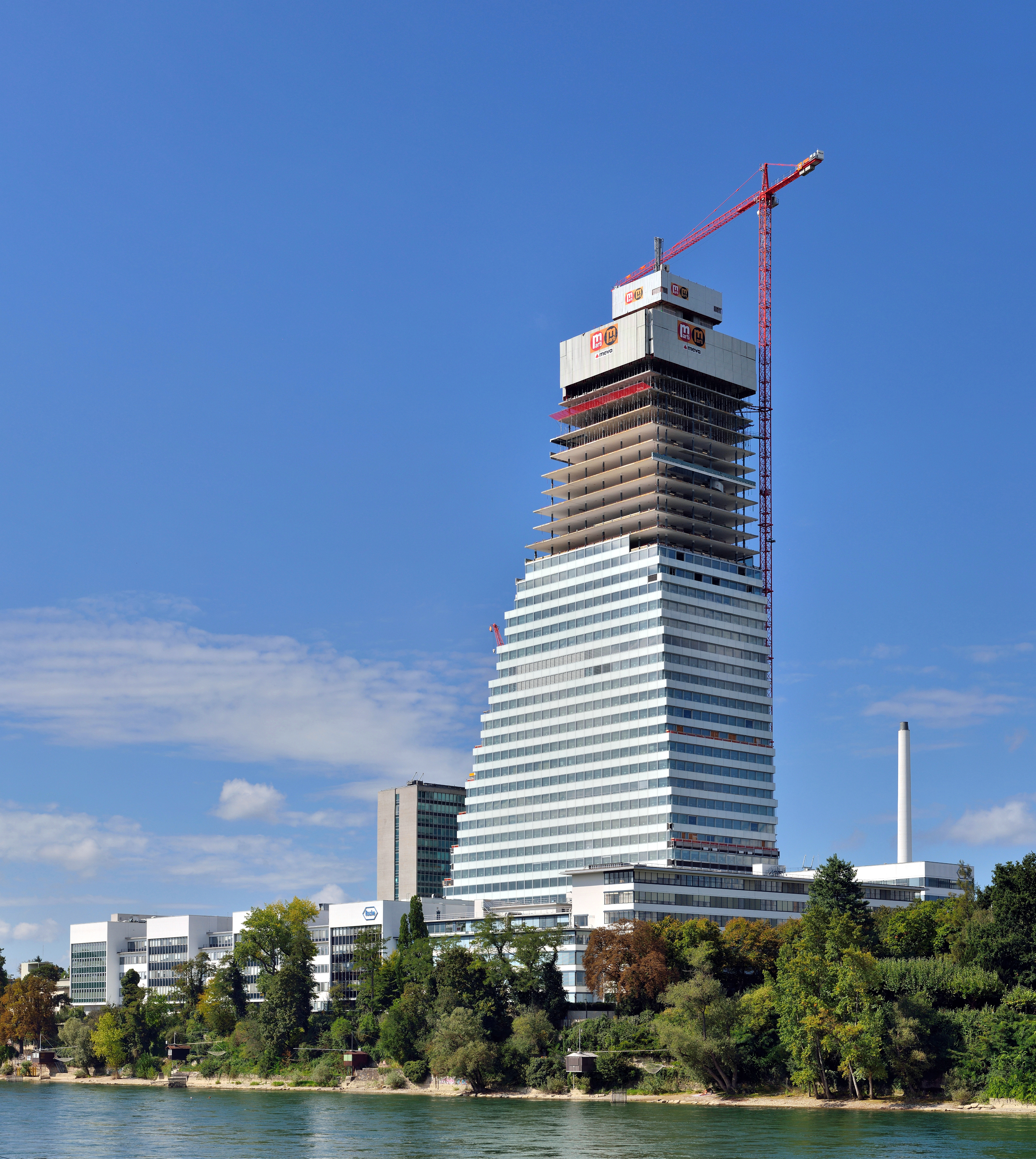 Roche Tower during construction on 20th september 2014